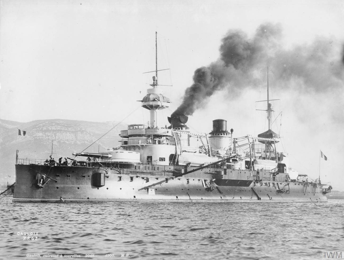 Symonds and Co Collection French Battleship GAULOIS, 1900.